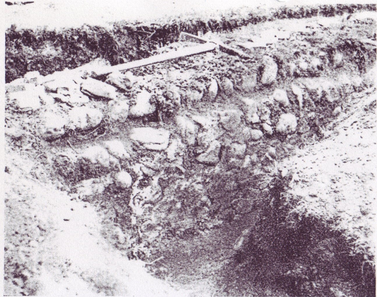 Foundation walls of the Roman "Villa Rustica" in Wörgl, Tyrol, Austria in 1949.